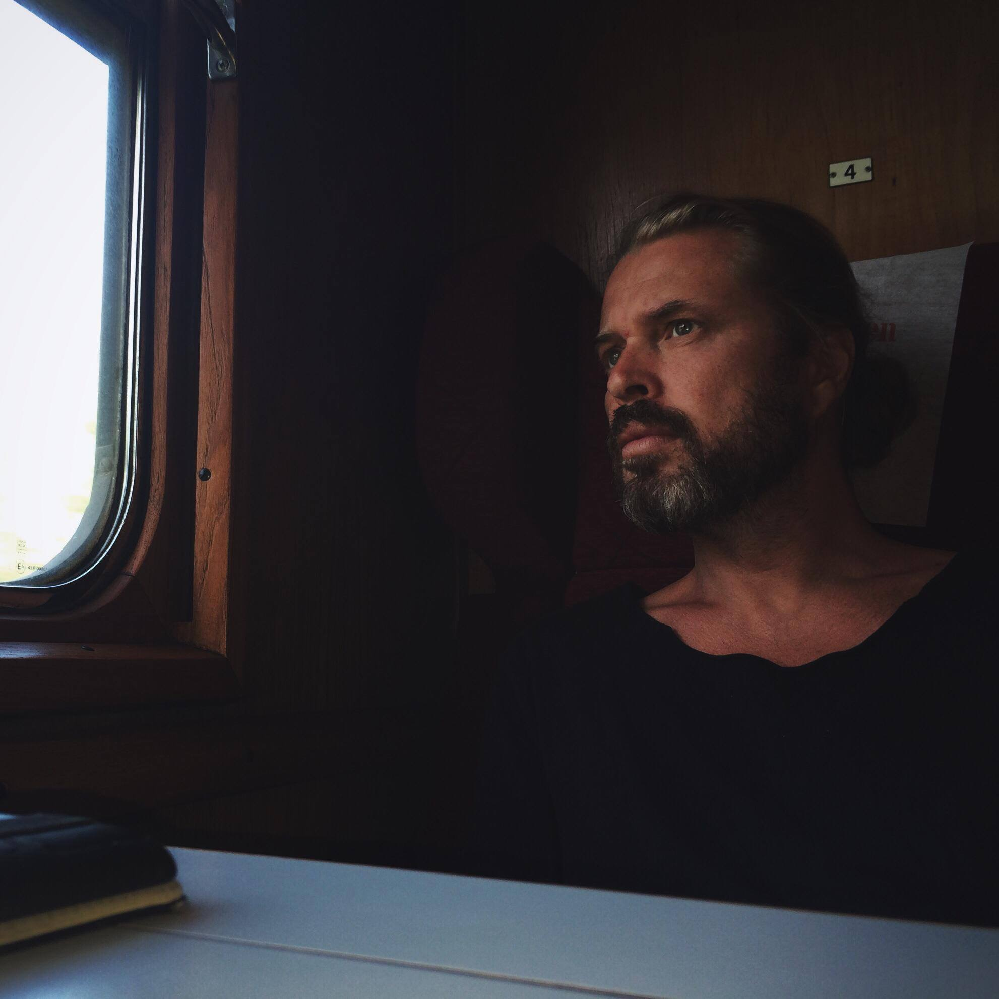 Mattias Lindblom, Swedish writer, composer and music producer